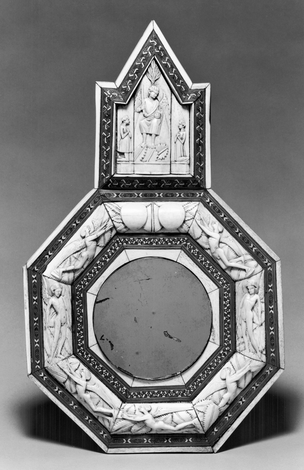 This frame once held a mirror made of convex glass or polished metal. (The present mirror is a modern replacement.) This is a type of decorative personal luxury object that might be part of a bride's dowry; the empty shields would have been painted with the coats of arms of the wedded pair. Mirrors were made in significant quantities by 15th-century north Italian artisans imitating the popular bone and ivory objects with distinctive inlays of stained wood and horn produced earlier in the workshop of Baldassare Embriachi about 1390-1435 in Venice.